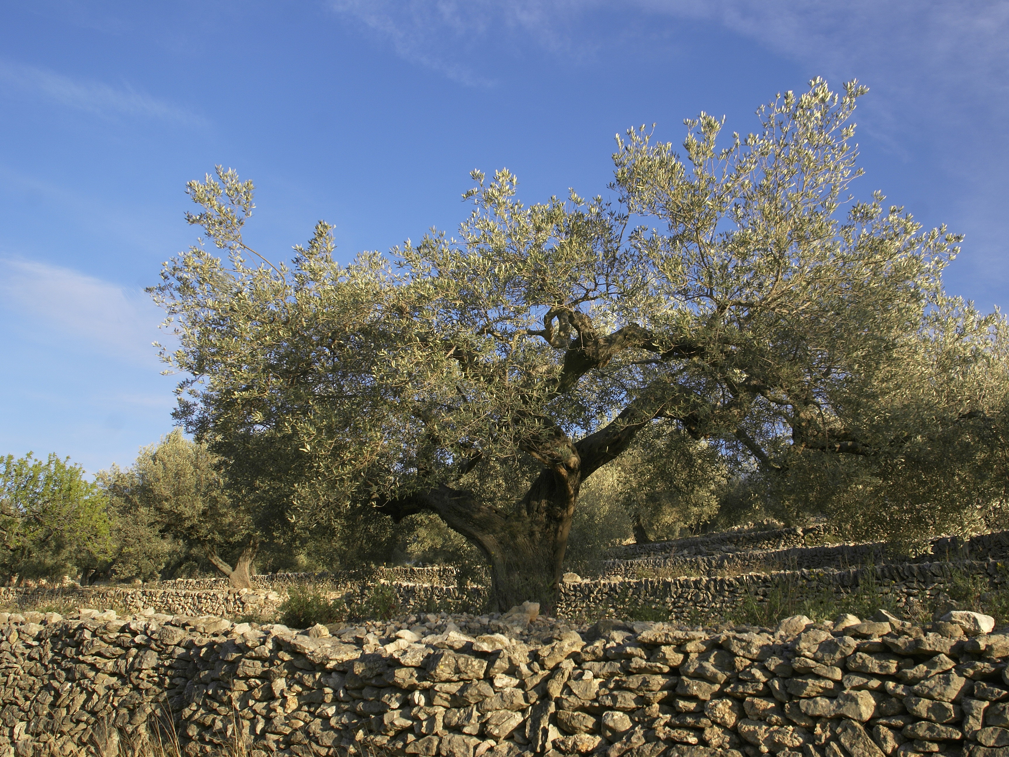 Plant near el Perelló, Catalonia, Spain